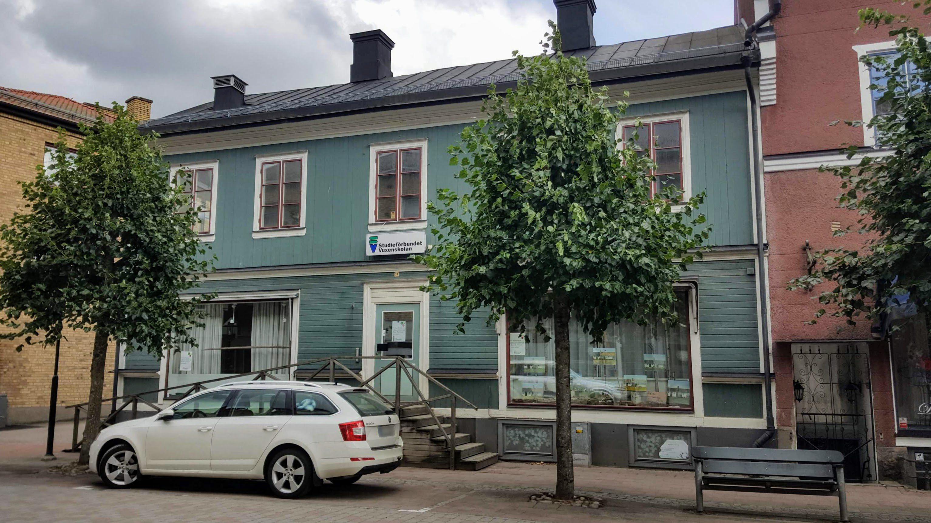 Potentially part of the building that 1869 was Ljungby Hospital. According to sources from 1988 ("Landstinget Kronoberg 1863-1988", ISBN 91-7970-312-7) the building should be located at Kungsgatan 5, Ljungby. However, the only building that looks similar to the wooden building from the preserved photos is this one, 25 meters away.